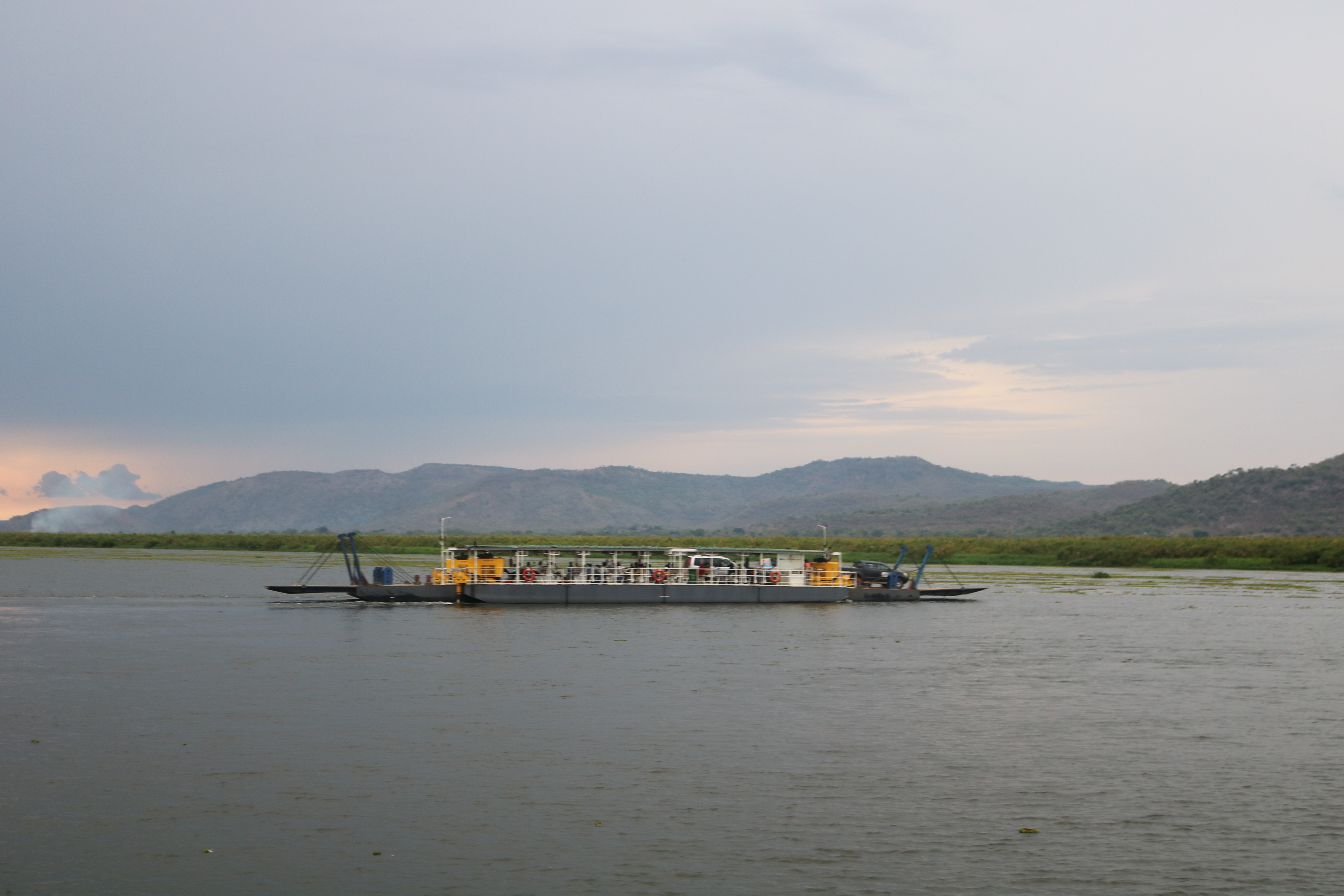 Ferry Crossing River Nile in Uganda This is an image with the theme "Africa on the Move or Transport" from: Uganda